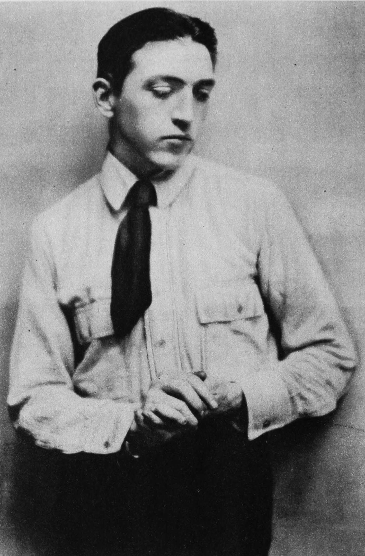 Charles Emmett Mack in Motion Picture Classic, July 1926. The original caption reads: "Charles Emmett Mack was raised among the Pennsylvania miners. He was a member of the Griffith studio crew when the dean of directors selected him for a rôle in 'Dream Street.'"